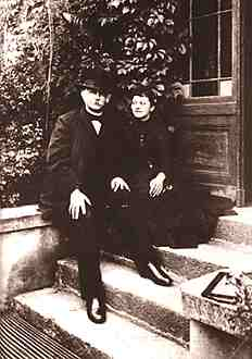 Theodor und Martha Fontane